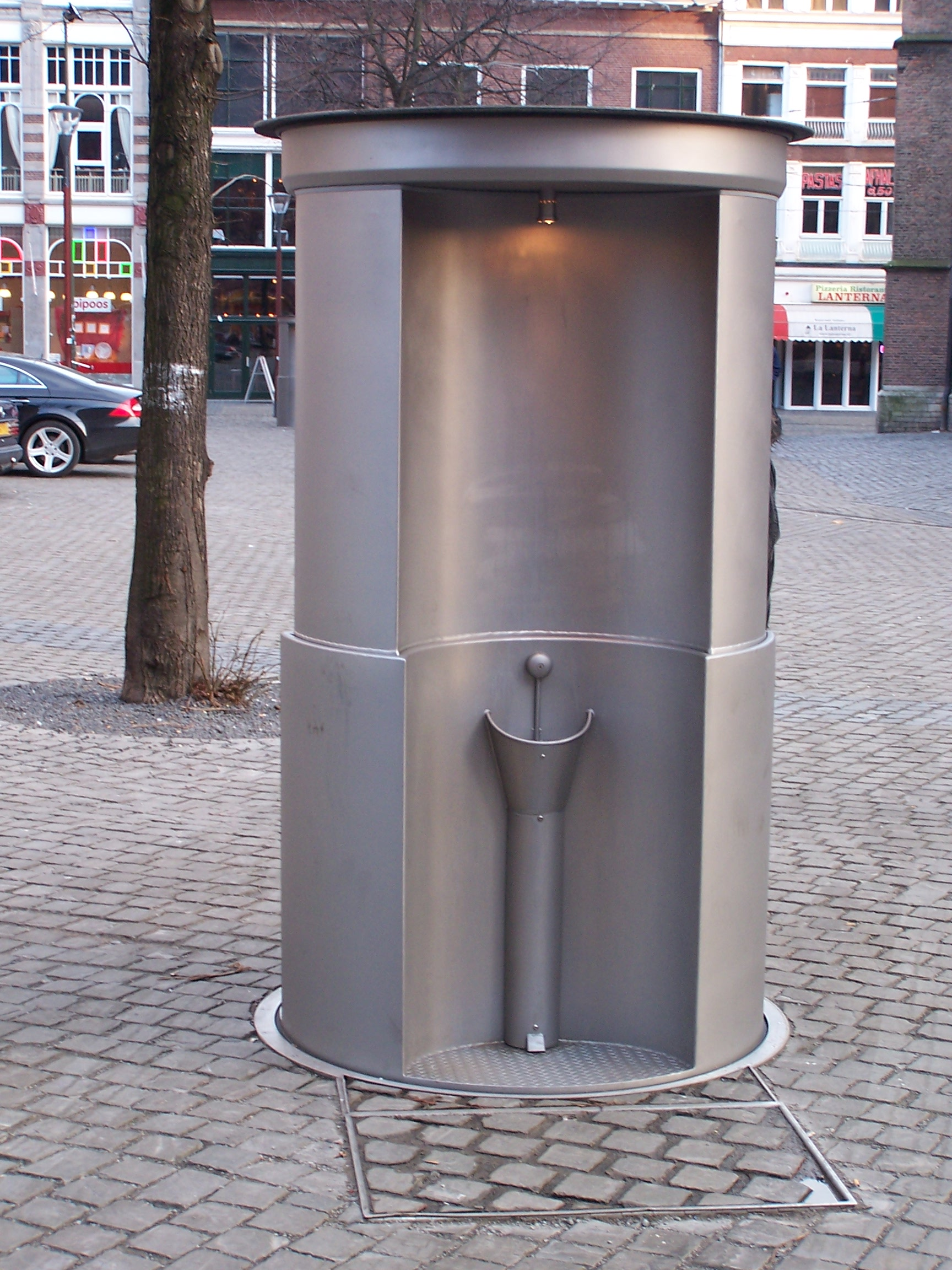 These things pop out of the ground on weekends. Public urinal, The Hague